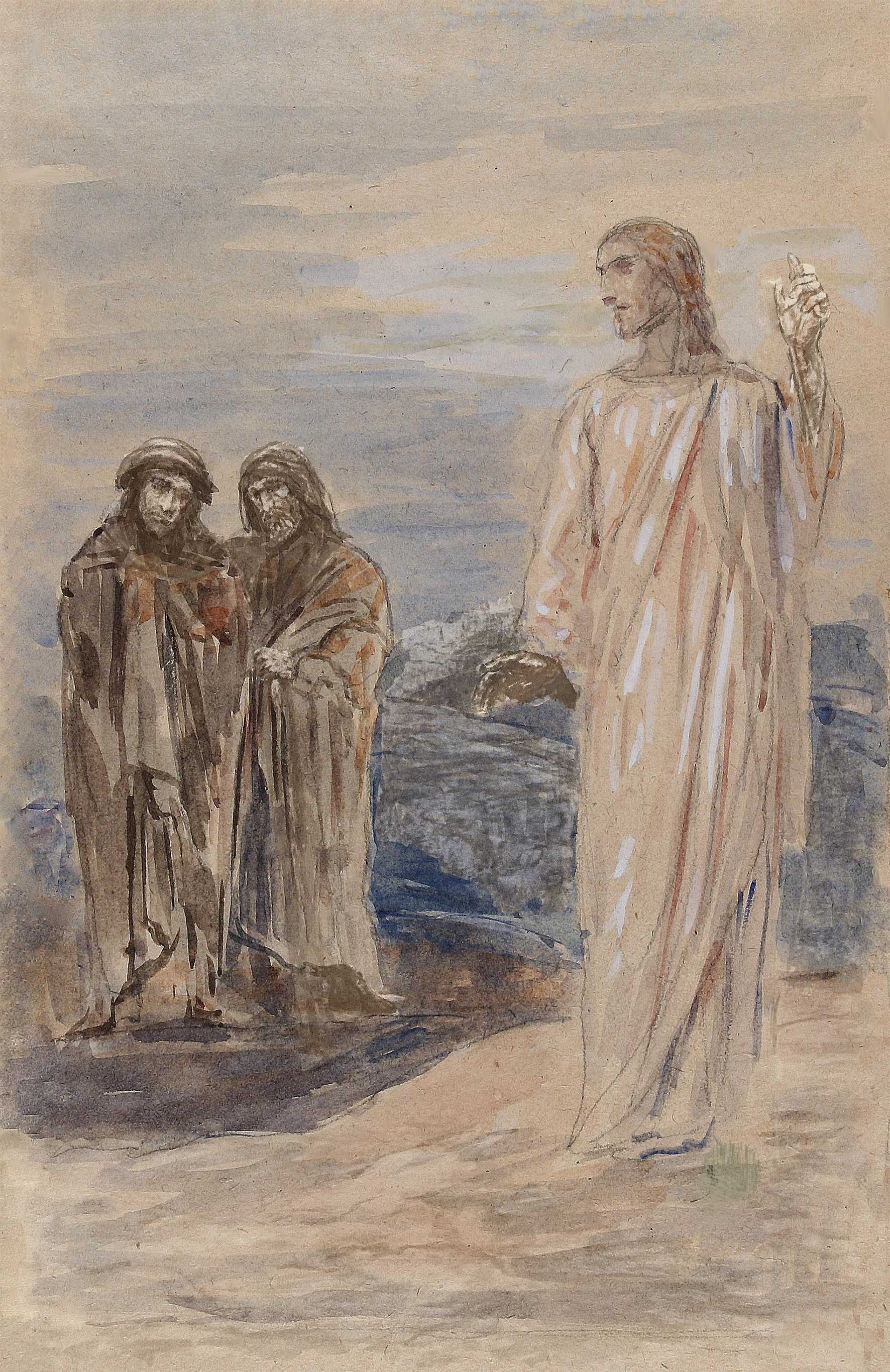 Reconstruction of the painting Die Jünger auf dem Weg nach Emmaus, denen der Herr nahe ist (The disciples on their way to Emmaus, with the Lord next to them), Lukaskirche Frankfurt am Main, 1914-1944. The original painting was painted by Wilhelm Steinhausen (died in 1924) in 1914 and was destroyed in 1944. The reconstruction was made by Emmaus. It is the only coloured reconstruction of the 21 destroyed paintings of the Lukaskirche in Frankfurt am Main.